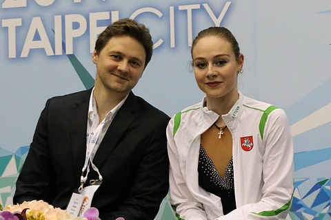 Elžbieta Kropa and Dmitri Kozlov at the 2017 Junior World Championships